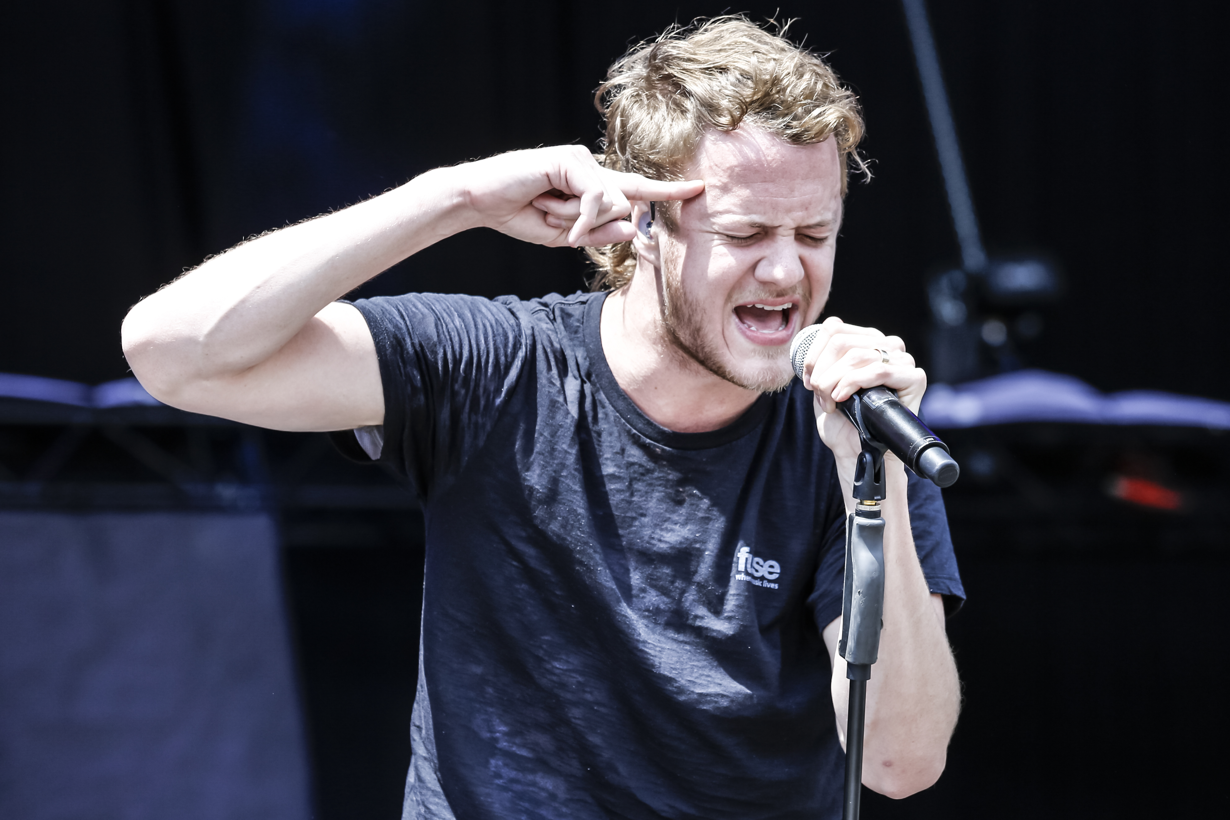 Dan Reynolds of Imagine Dragons at Rock im Park 2013 in Nuremberg, Germany